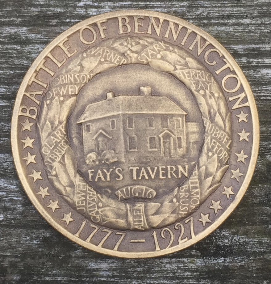 Medal for the 150th anniversary of Vermont and of the Battle of Bennington, reverse. Note: on the edge is stamped "Medallic Art Co. N.Y." and it is otherwise smooth Obverse